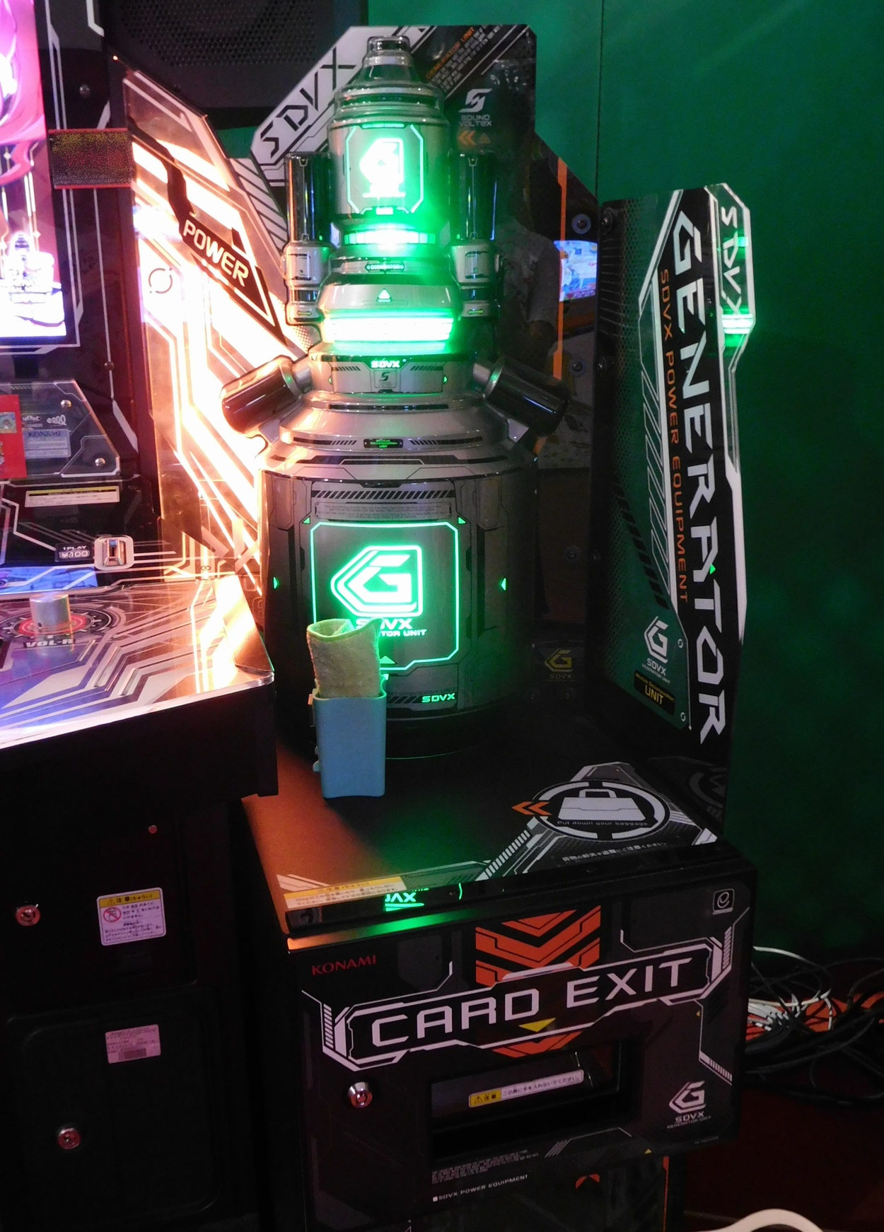 Konami - Card Generator of the "SOUND VOLTEX"